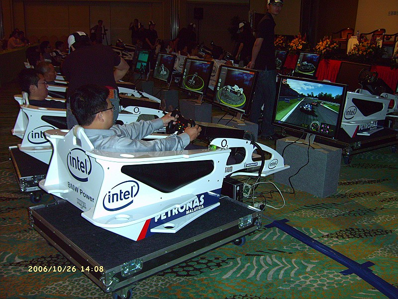 Intel, iTHome, and Business Week Magazine Group prepared 20 Experimental Model Cars for vPro F1 Experience Activity.